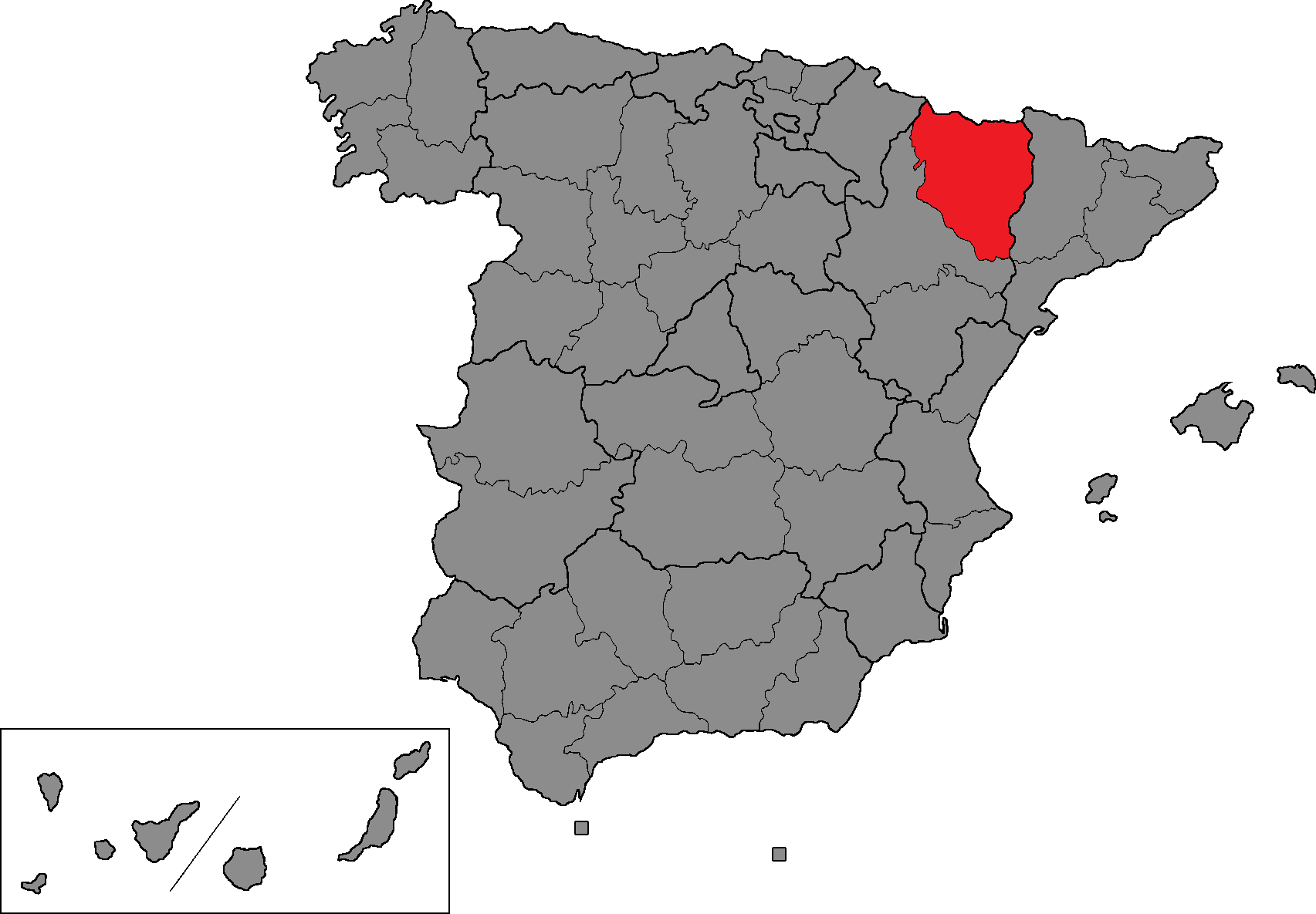 Spanish Congress of Deputies district of Huesca.